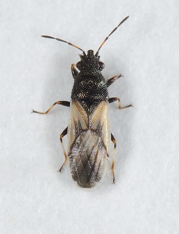 Metopoplax ditomoides, location: The Netherlands - Keent